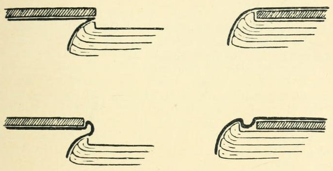 Text page 33 accompanying fig. 22 "...What are known as French joints are generally used for library books because they allow a thicker piece of leather to be used for covering than would be possible or desirable with an ordinary joint, and they also prevent the concentration of the creasing of the leather at one point. By permission, the illustrations in the Royal Society of Arts' Report showing the advantages of a French joint over an ordinary joint are given herein (see Fig. 22). The upper illustration of a section of an ordinary joint with the board open shows that the creasing of the leather is concentrated on one line ; the lower illustration of a French joint shows how this creasing is distributed over a greater surface, and so enables sufficient flexibility to be obtained with much thicker leather than can be used with an ordinary joint. It will be observed that a French joint is obtained by keeping the boards a short distance (about 1/8 in.) from the back of the book, instead of bringing them close up to the back. ..."